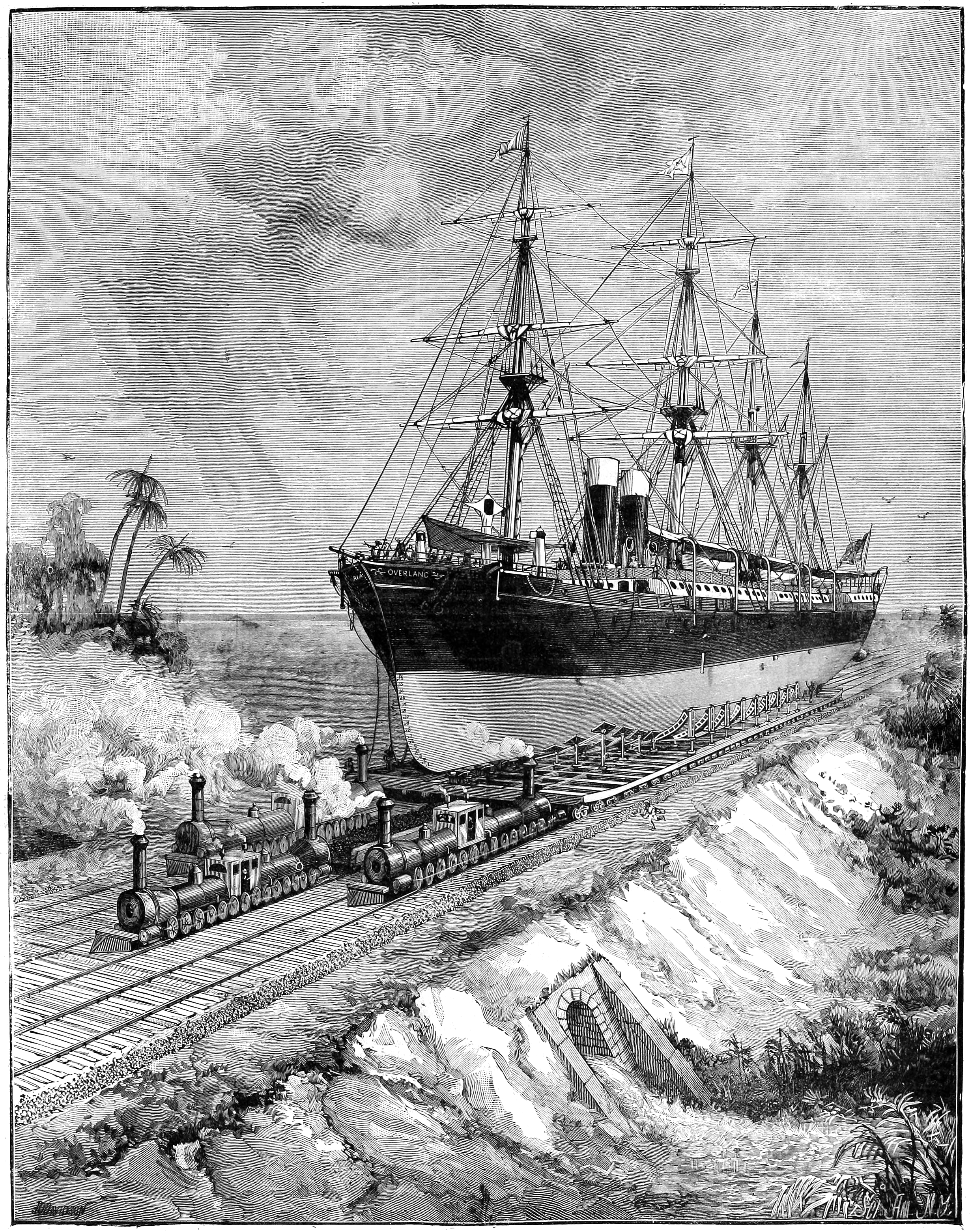 Wood engraving illustrating the plan for an "Interoceanic Ship Railway" in Central America between the Atlantic and Pacific Oceans, proposed by James B. Eads in the late 19th century. It was never built, and the Panama Canal was built instead. (image cropped and cleaned up)